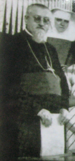 Image of a photograph of Bishop Georg Weig, SVD. The original photograph that this image has captured was taken between 1926 and 1941 in Qingdao, China and has passed into the public domain.